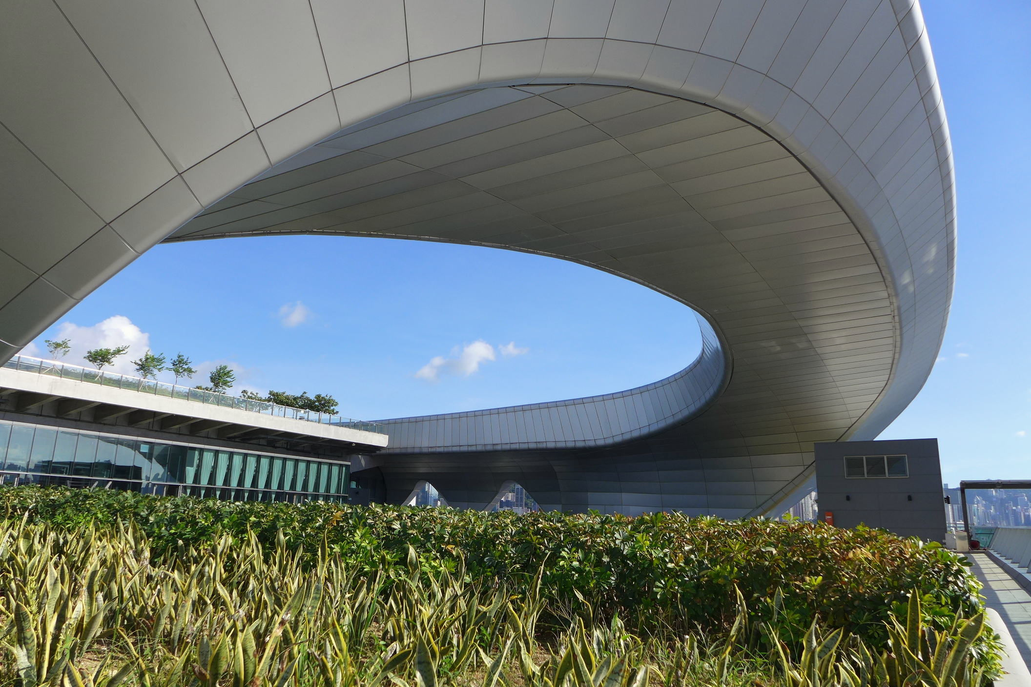 Kai Tak Cruise Terminal Level 2 North Podium